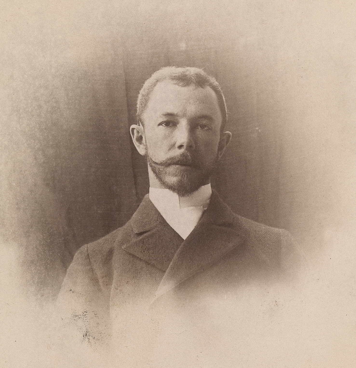 Irving Ramsey Wiles, American illustrator and portrait painter